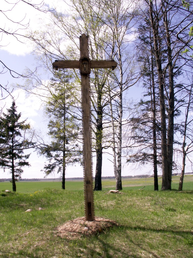 Cemeterie in Daušiškiai, Šiauliai district, Lithuania